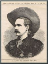 Doc Carver 1879